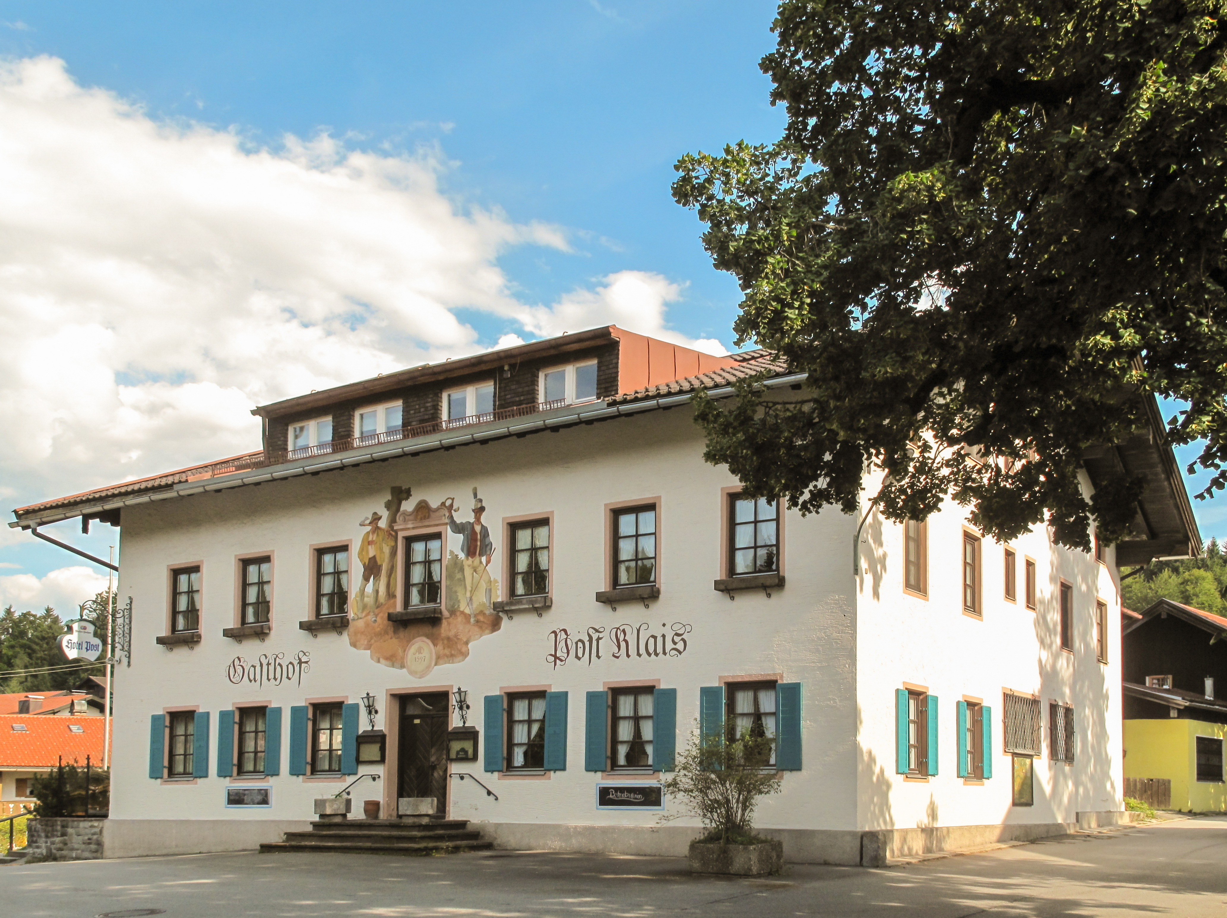 Klais, hotel